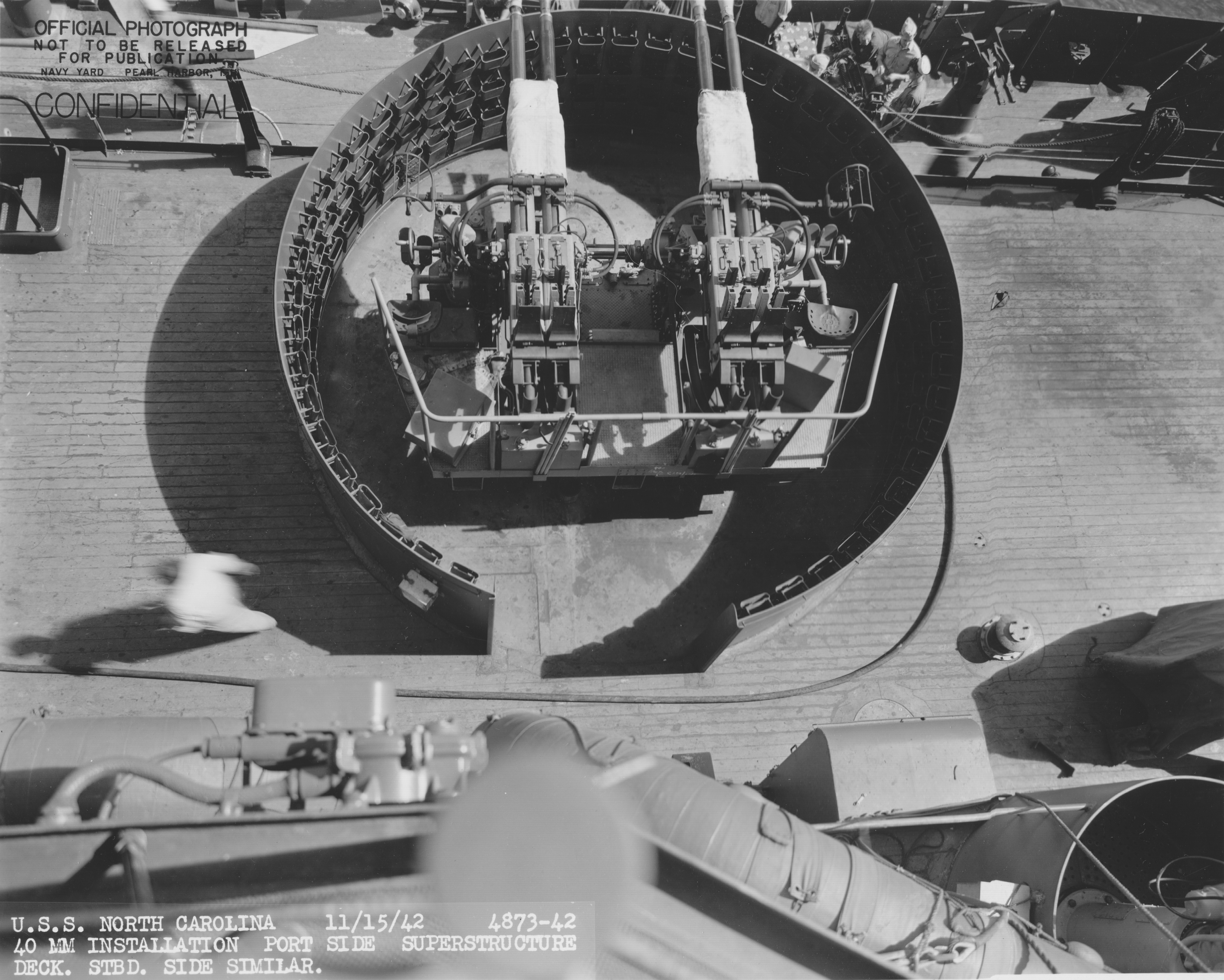 The port side 40mm guns on the USS North Carolina. Box: 19LCM, BB-55 to BB-56; Folder BS 72478-72485 19LCM-BB55-4873-42